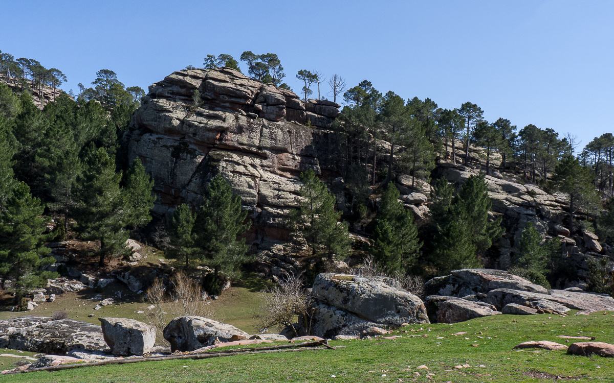 02042010 162728 56227 This is a photography of a Site of Community Importance in Spain with the ID: ES2420039. Natura2000 entry, EEA entry